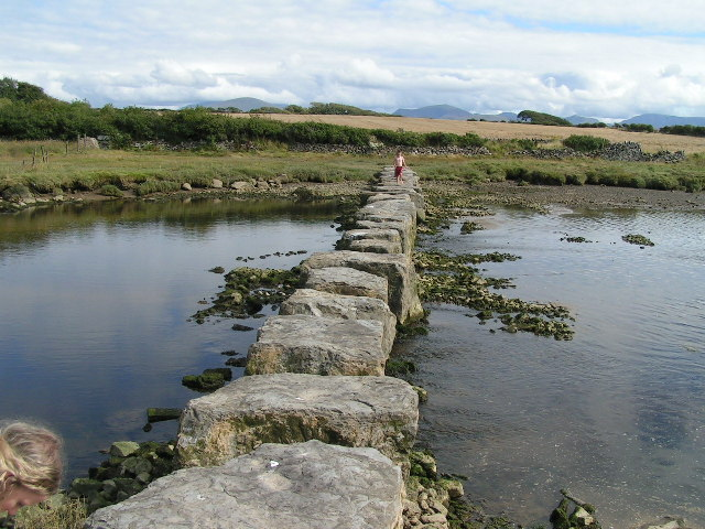 Stepping Stones, Afon Braint. With Snowdonia in the background